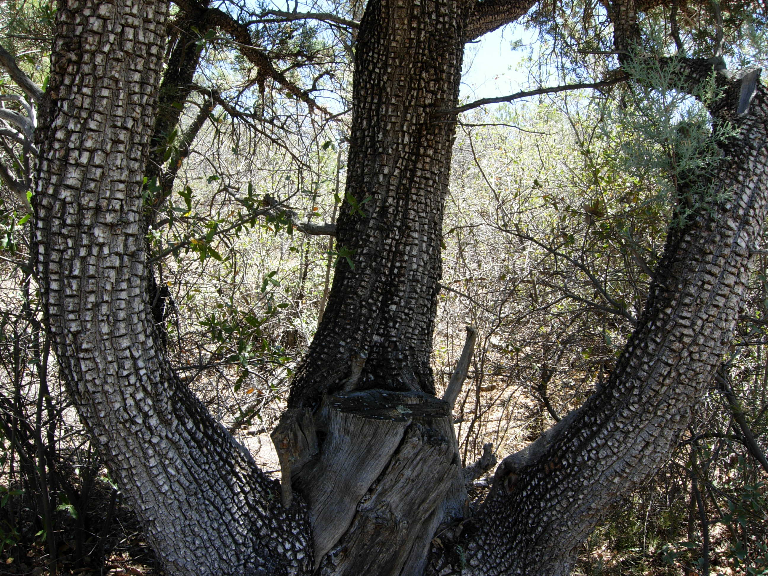 Trunks of the Alligator Juniper (Juniperus deppeana), showing the distinct bark